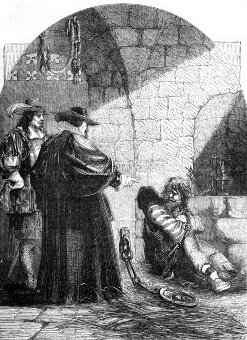 The title is the same as the image caption above and in "Cassell's Illustrated History of England, Volume 3". The number shown is the page number. Follow the image link to the full book vol.3.